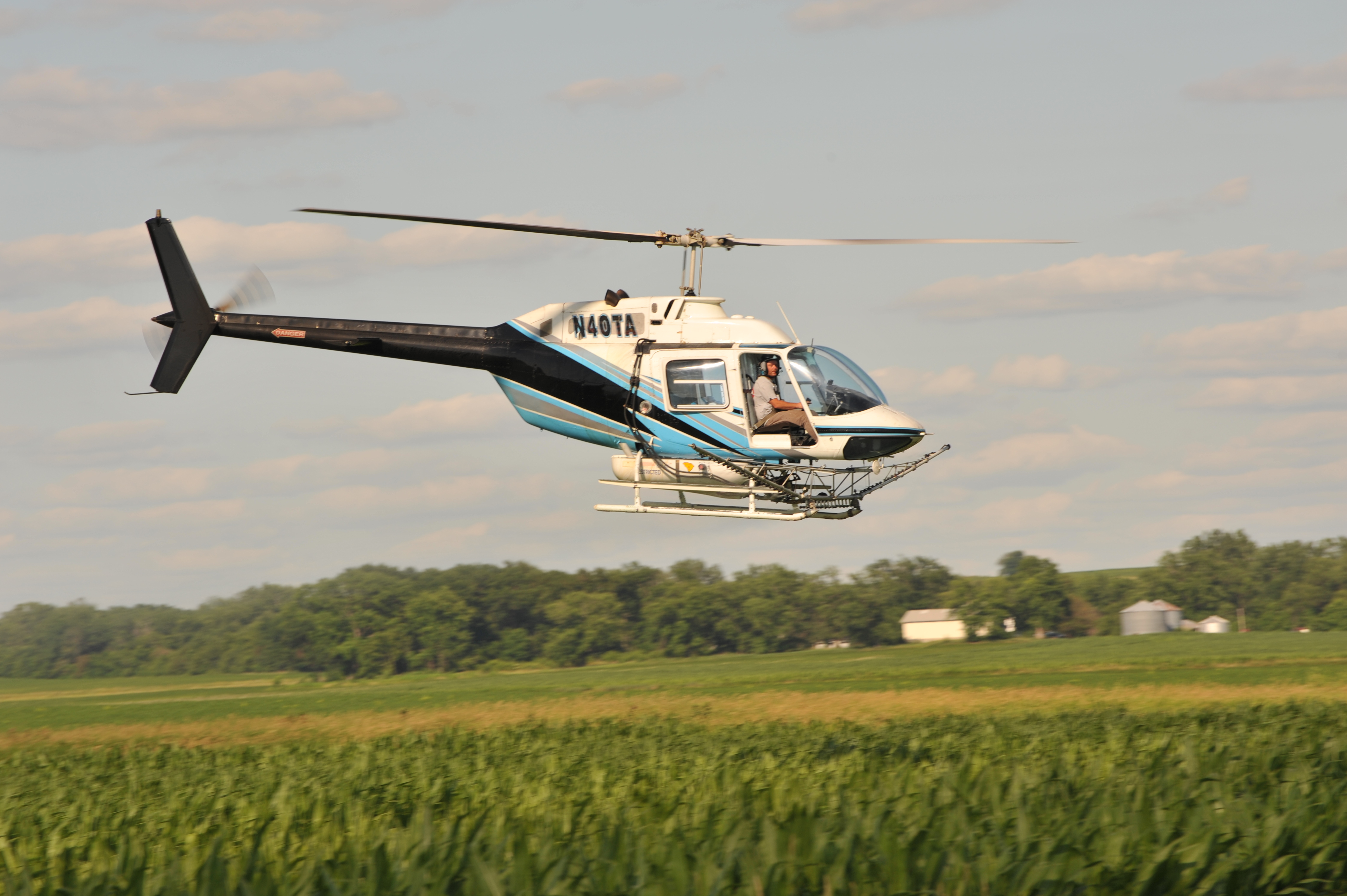 Helicopter crop dusting, Polk County, Iowa, USA. Ran into this guy on my way home from work tonight.